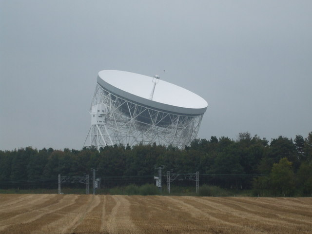 Field towards Jodrell Bank